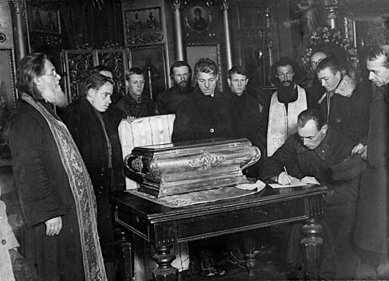 Opening of relics at the church of St. Alexander Nevsky (Ekaterinburg, Rusia)